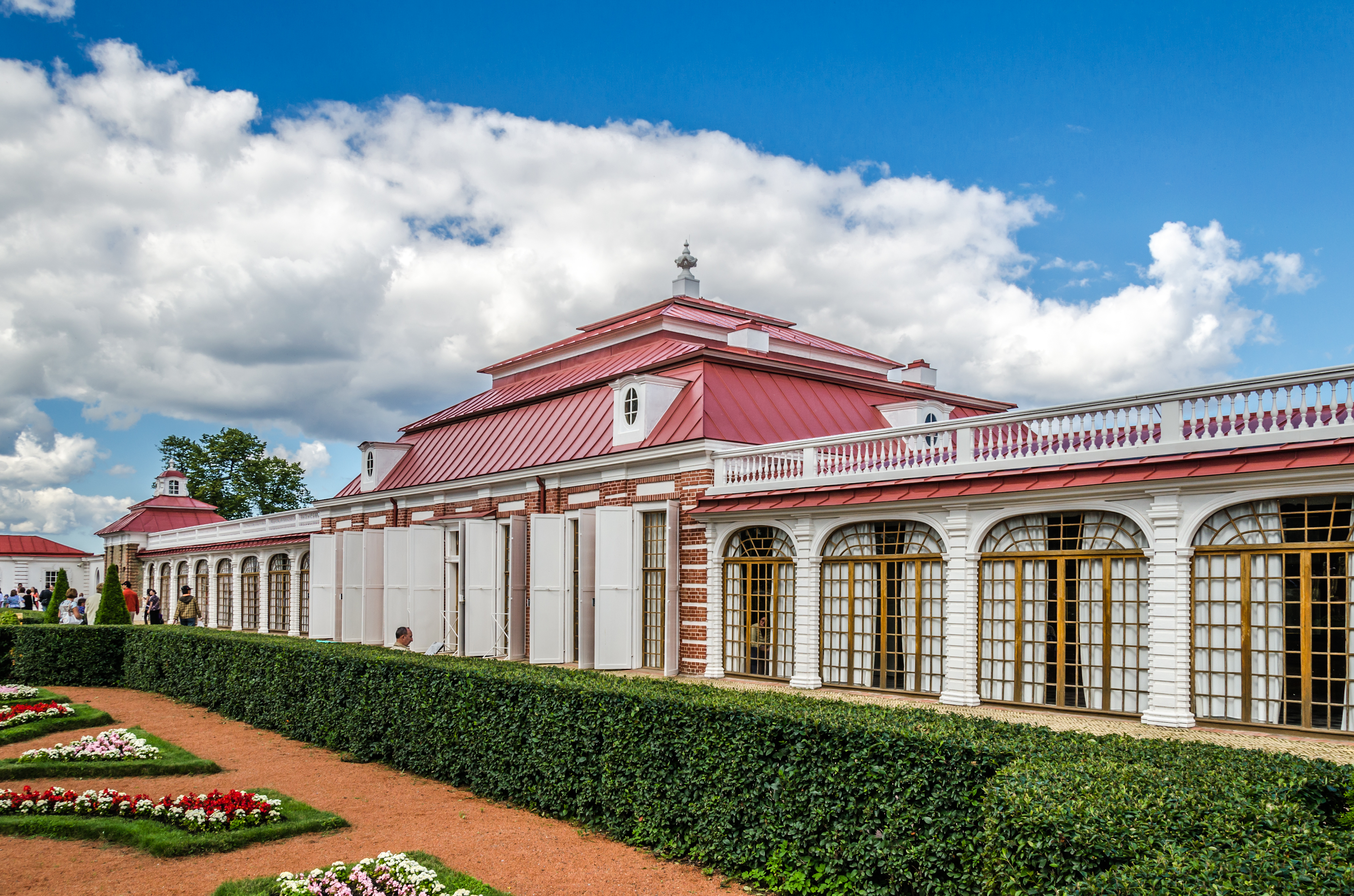 Monplaisir palace in the Lower Park of Peterhof